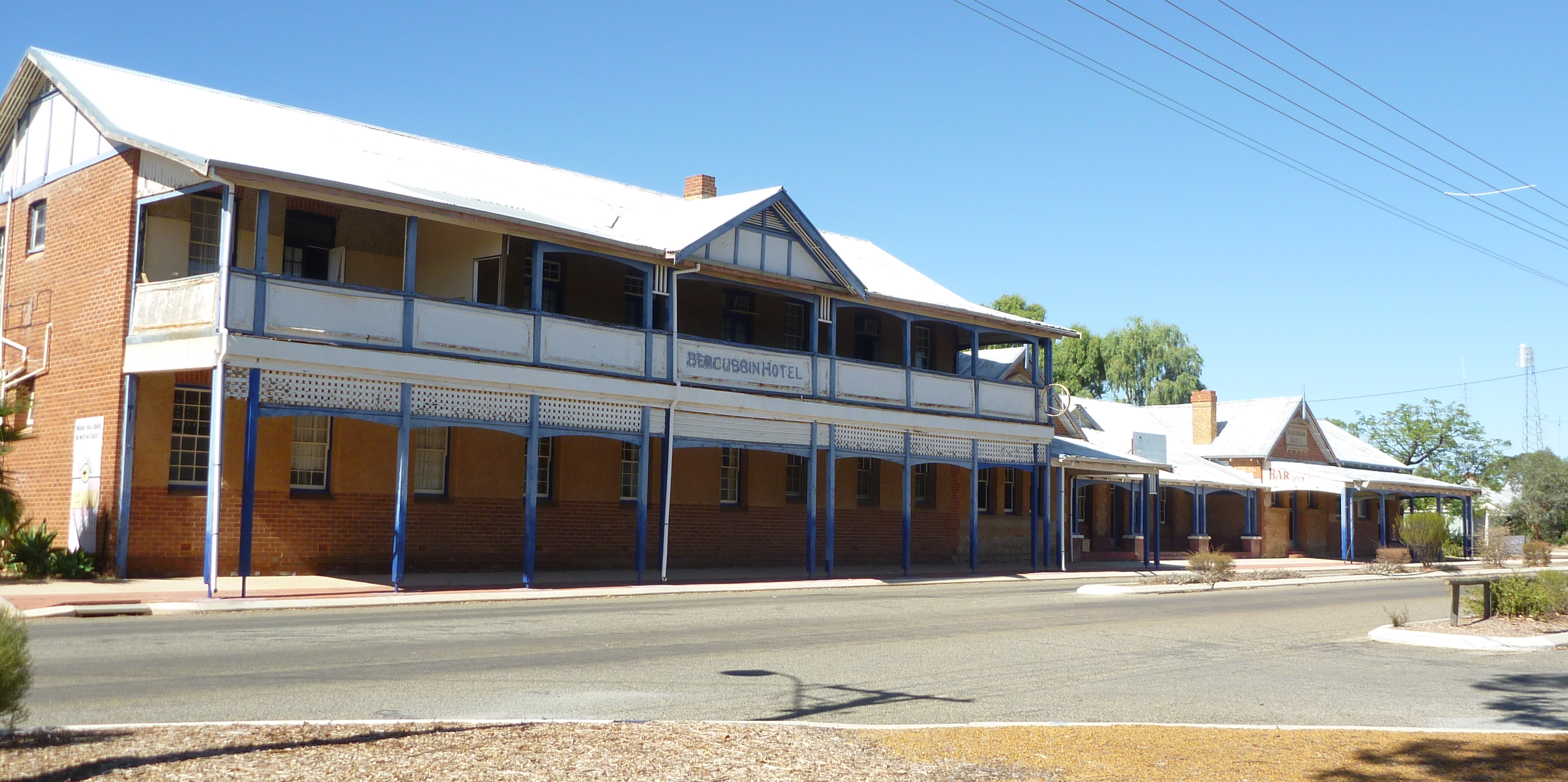 The front of Bencubbin Hotel, facing Monger Street.